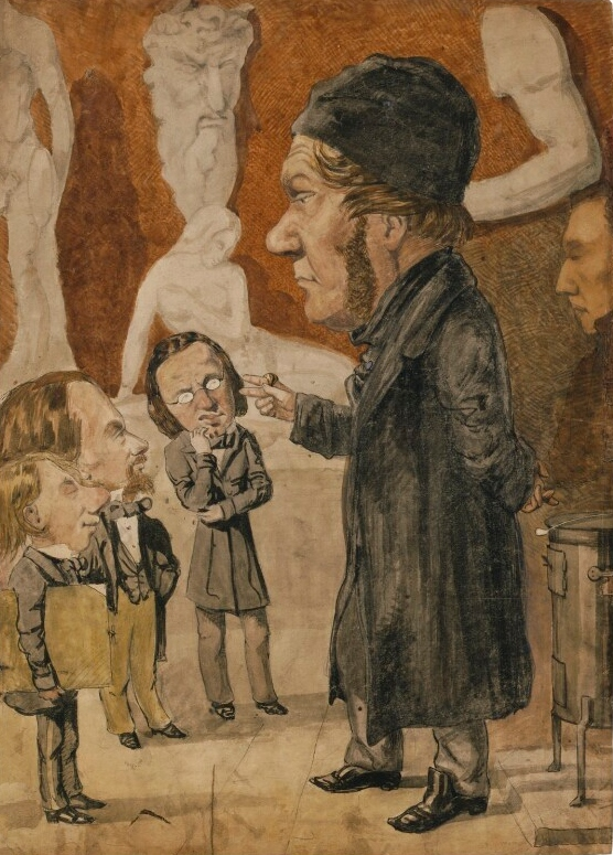 Edward Hodges Baily in his Studio